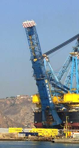 Saipem 7000 sea crane